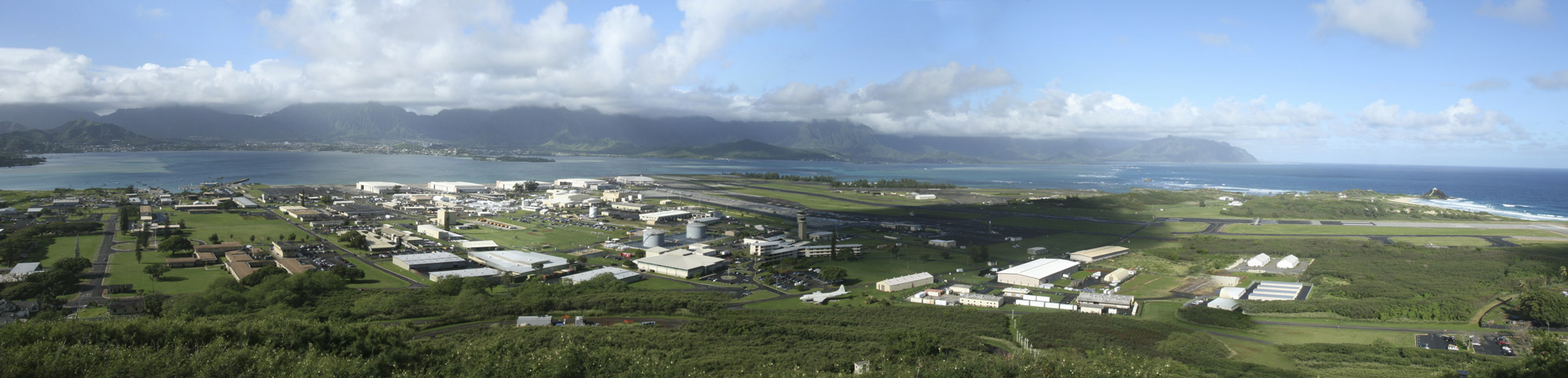 Marine Corps Base Hawaii — and Kāneʻohe Bay on the windward side of Oʻahu, in Hawaiʻi.